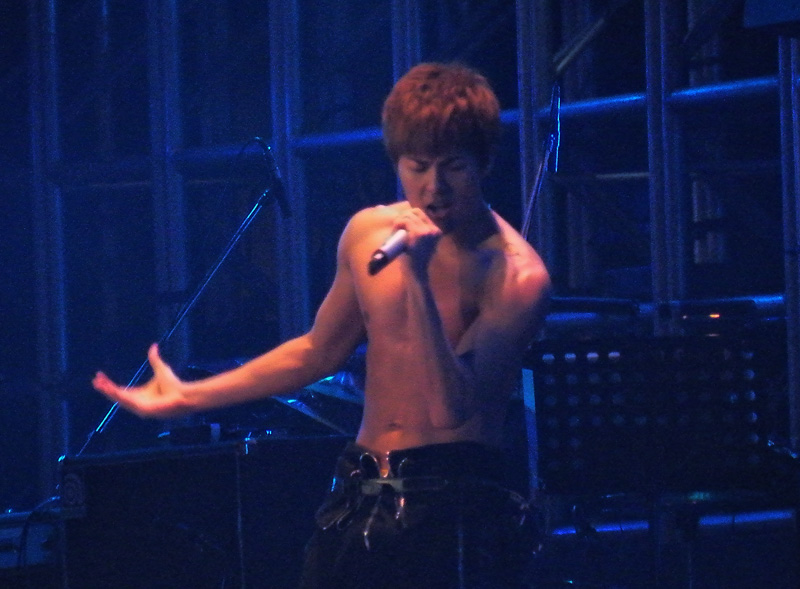 Kenji Wu performed in Taipei New Year's Eve Party 2011